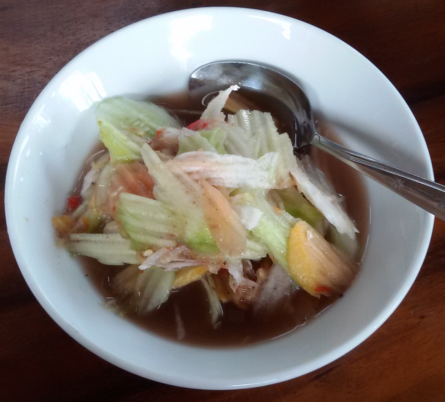 Rujak kuah pindang, traditional sweet and salty fruit salad from Bali, Indonesia, with fish broth sauce